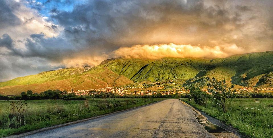 Greikoc Village photo by Brendon Canaj